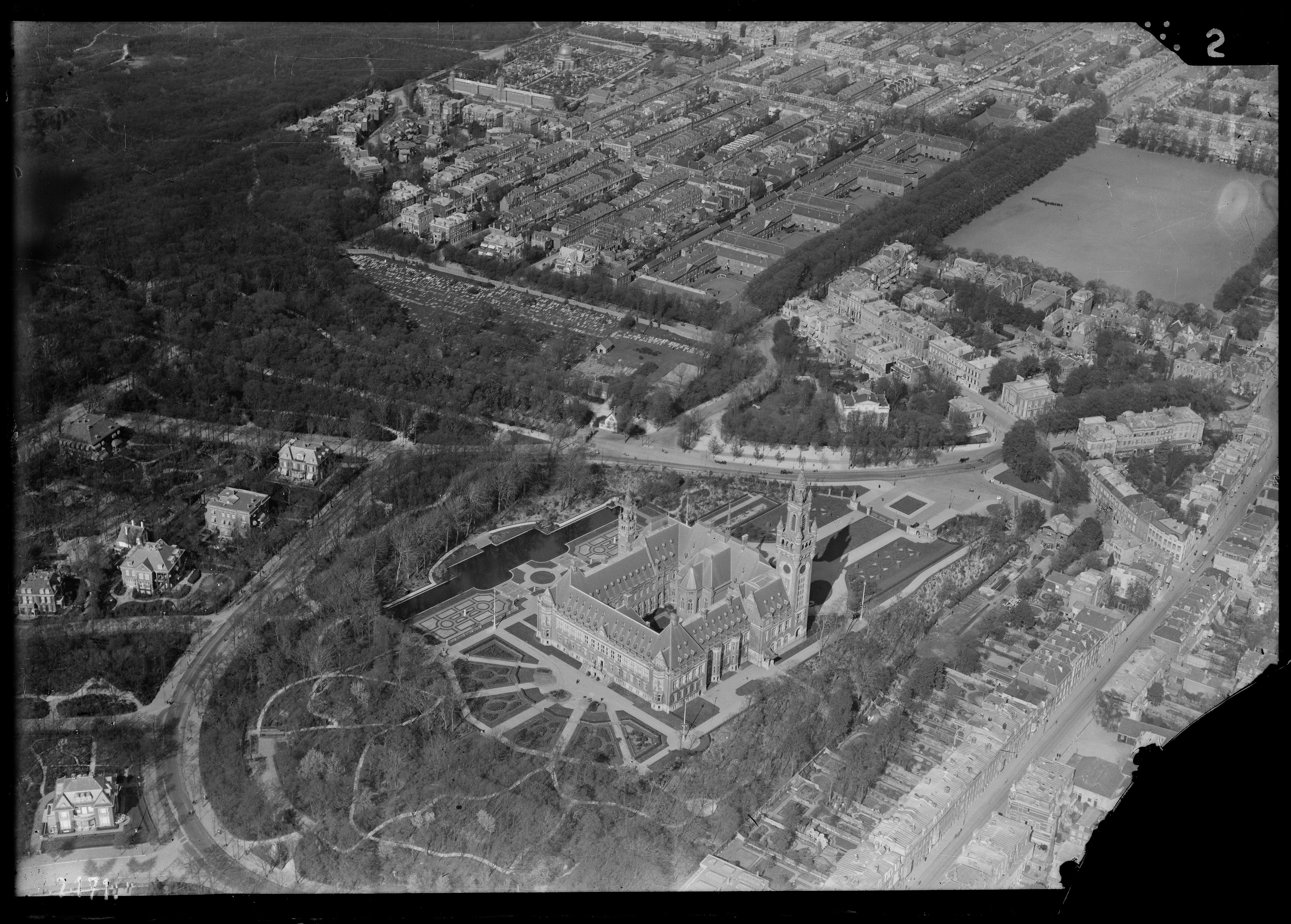 Aerial photograph of The Hague, The Netherlands, with the Peace Palace